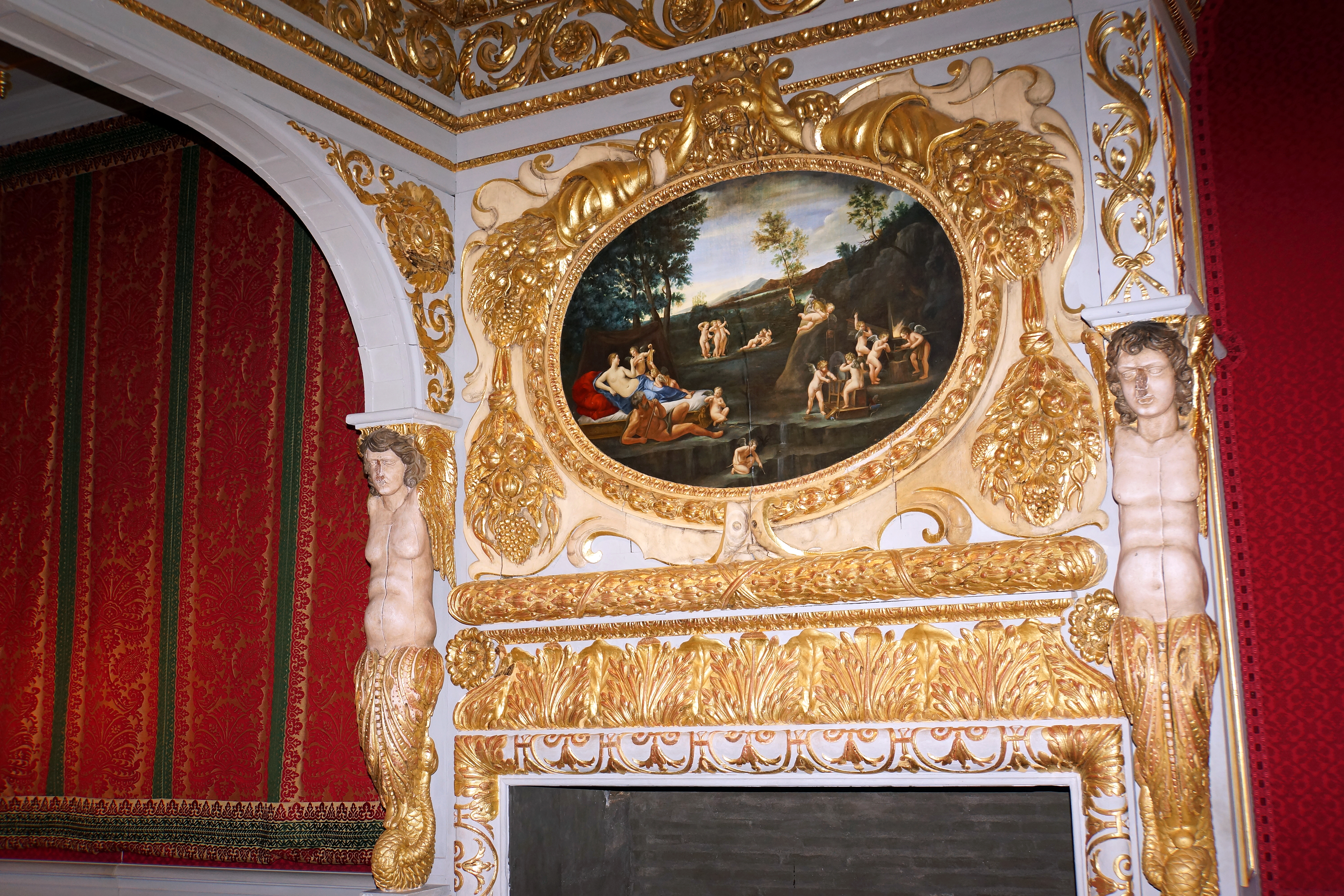 PLEASE, NO invitations or self promotions, THEY WILL BE DELETED. My photos are FREE to use, just give me credit and it would be nice if you let me know, thanks. This was the only room I saw at the castle. This decor was associated with the woman who was mistress of the castle in the early 16th century, Francoise de Foix. The interior work was not done until a century after her death by the owner of the castle from 1634. Francoise de Foix never saw the Baroque decor. The story of her death has been told since 1537. It is said that Jean de Laval, her husband, murdered her in this room. Historians say this is only a myth.